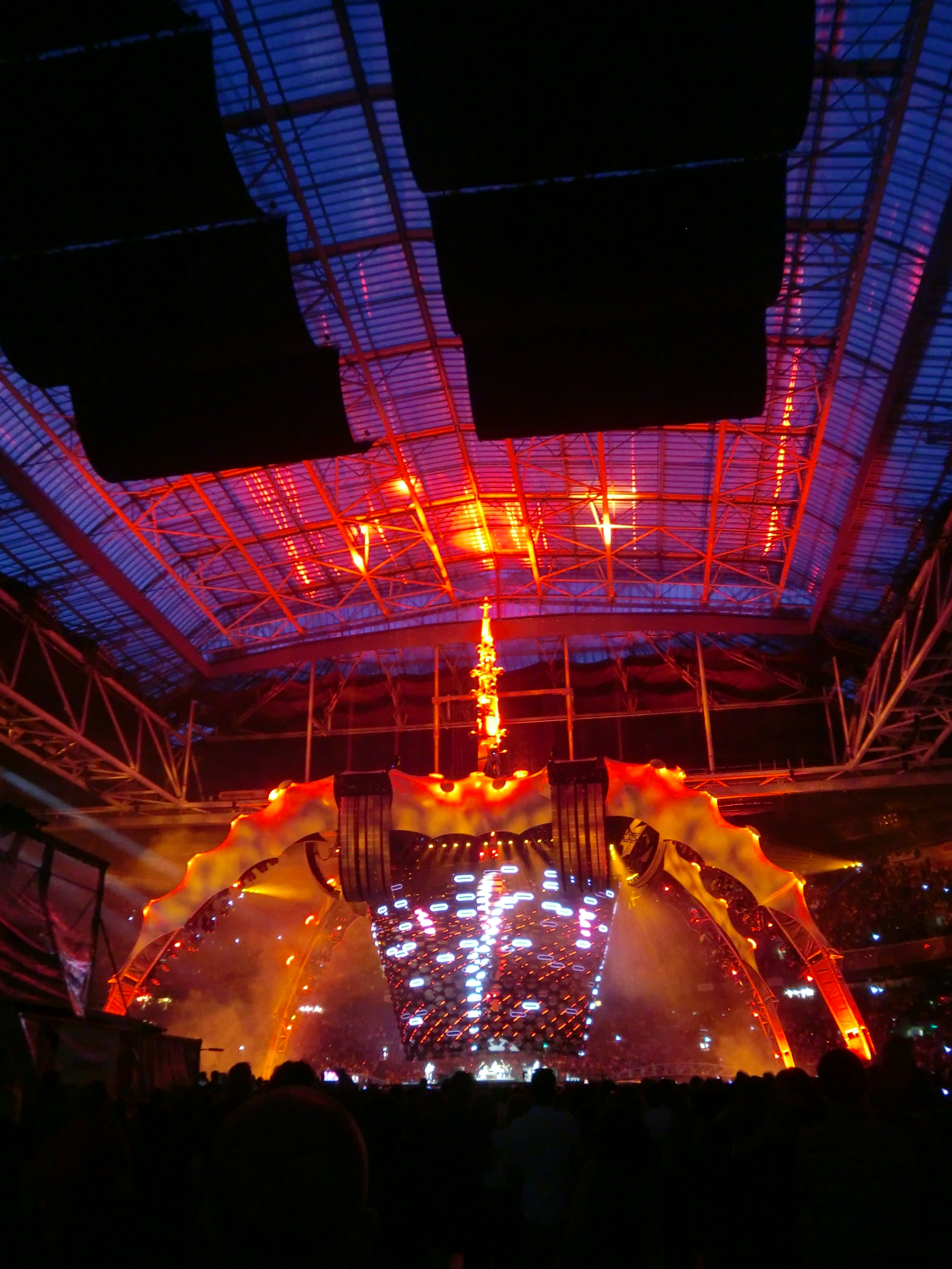 U2 at the Amsterdam ArenA during the 360° Tour.